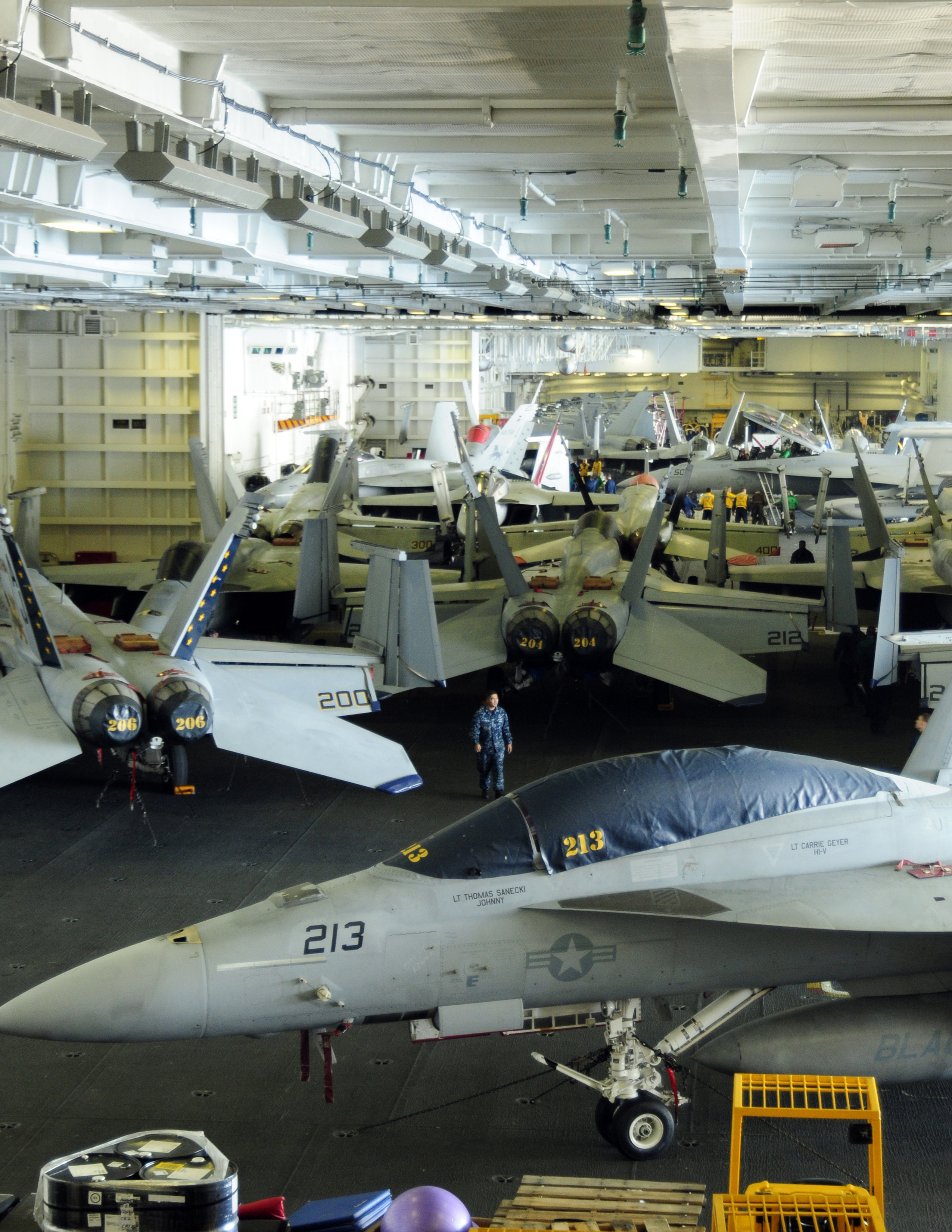 ATLANTIC OCEAN (Oct. 6, 2010) Aircraft from Carrier Air Wing (CVW) 8 are stored in the hangar bay of the aircraft carrier USS George H.W. Bush (CVN 77). George H.W. Bush is conducting training in the Atlantic Ocean. (U.S. Navy photo by Mass Communication Specialist Seaman Leonard Adams/Released)